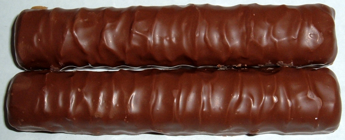 Twix bar Purchased March 2005 in Atlanta, GA, USA